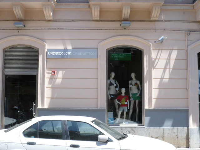 the undercolors of benetton